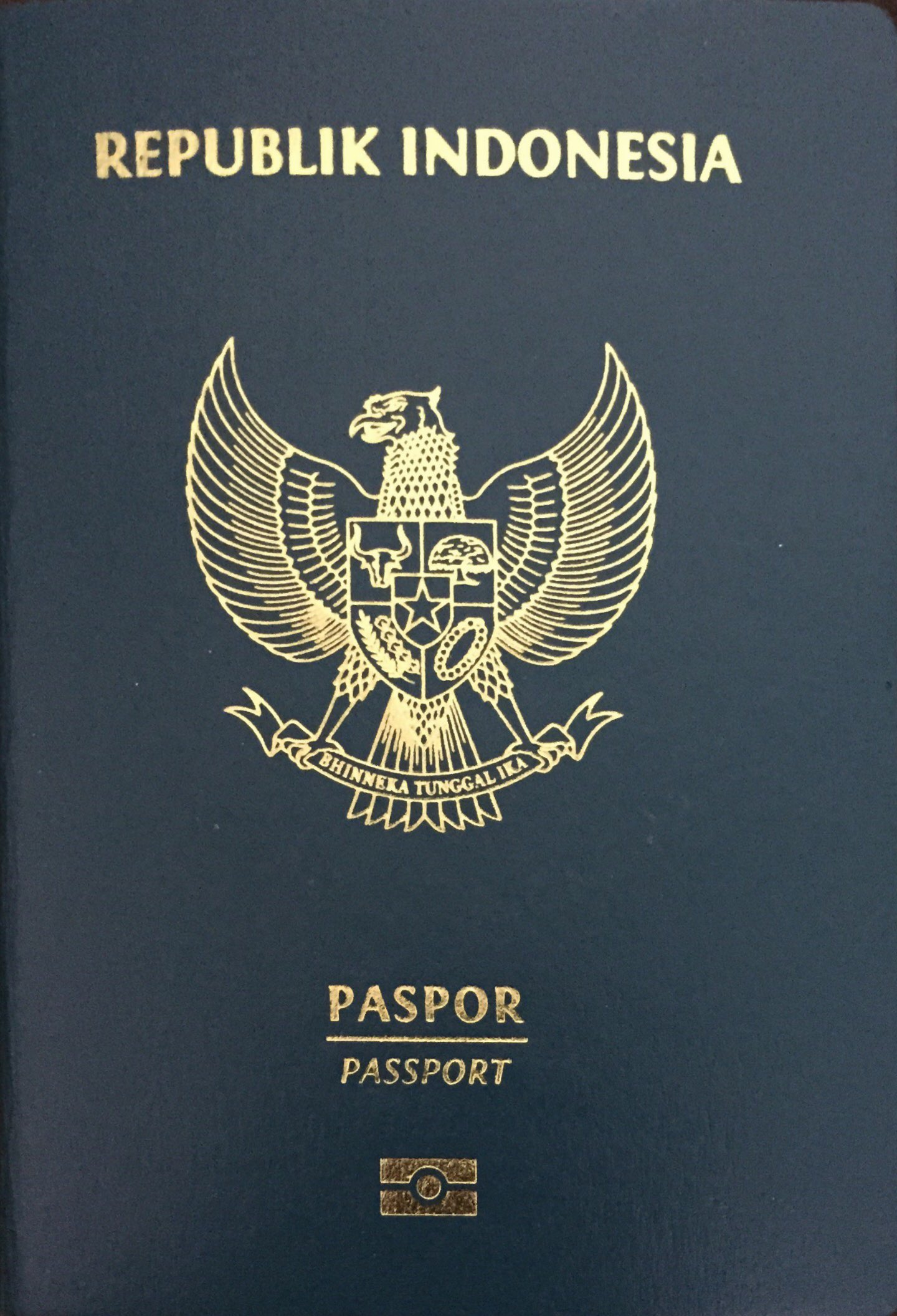 Indonesian new biometric passport